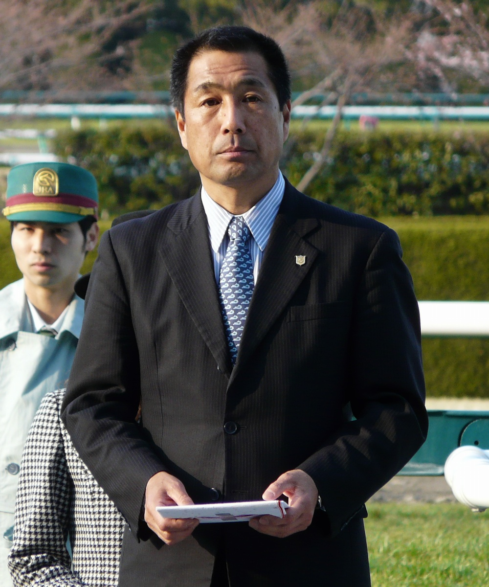 Yoshitaka-Ninomiya20110403